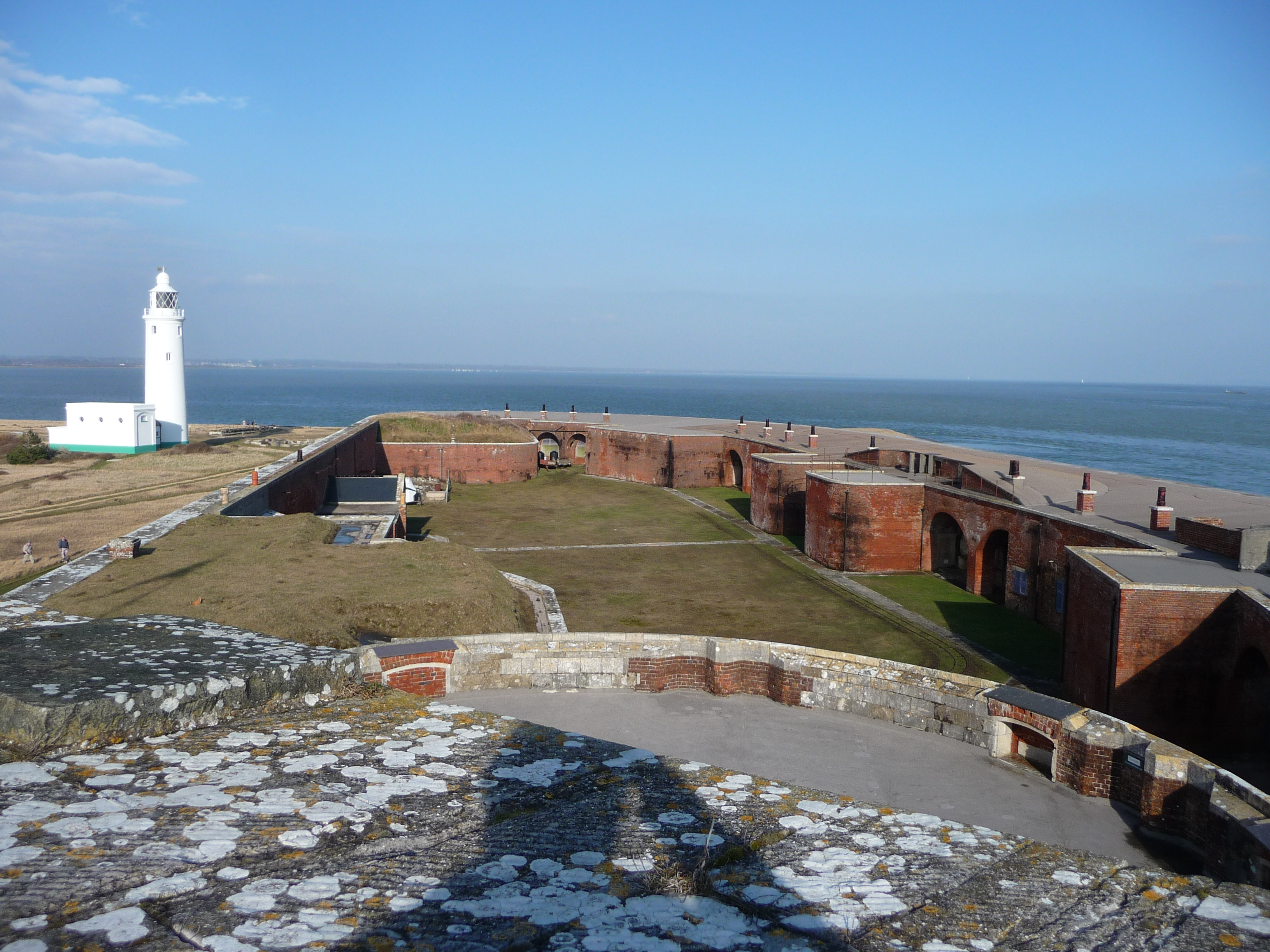 Hurst Castle : East Wing & Lighthouse Looking out across the eastern section of the castle and also the coastline can be seen in the distance across the Solent.